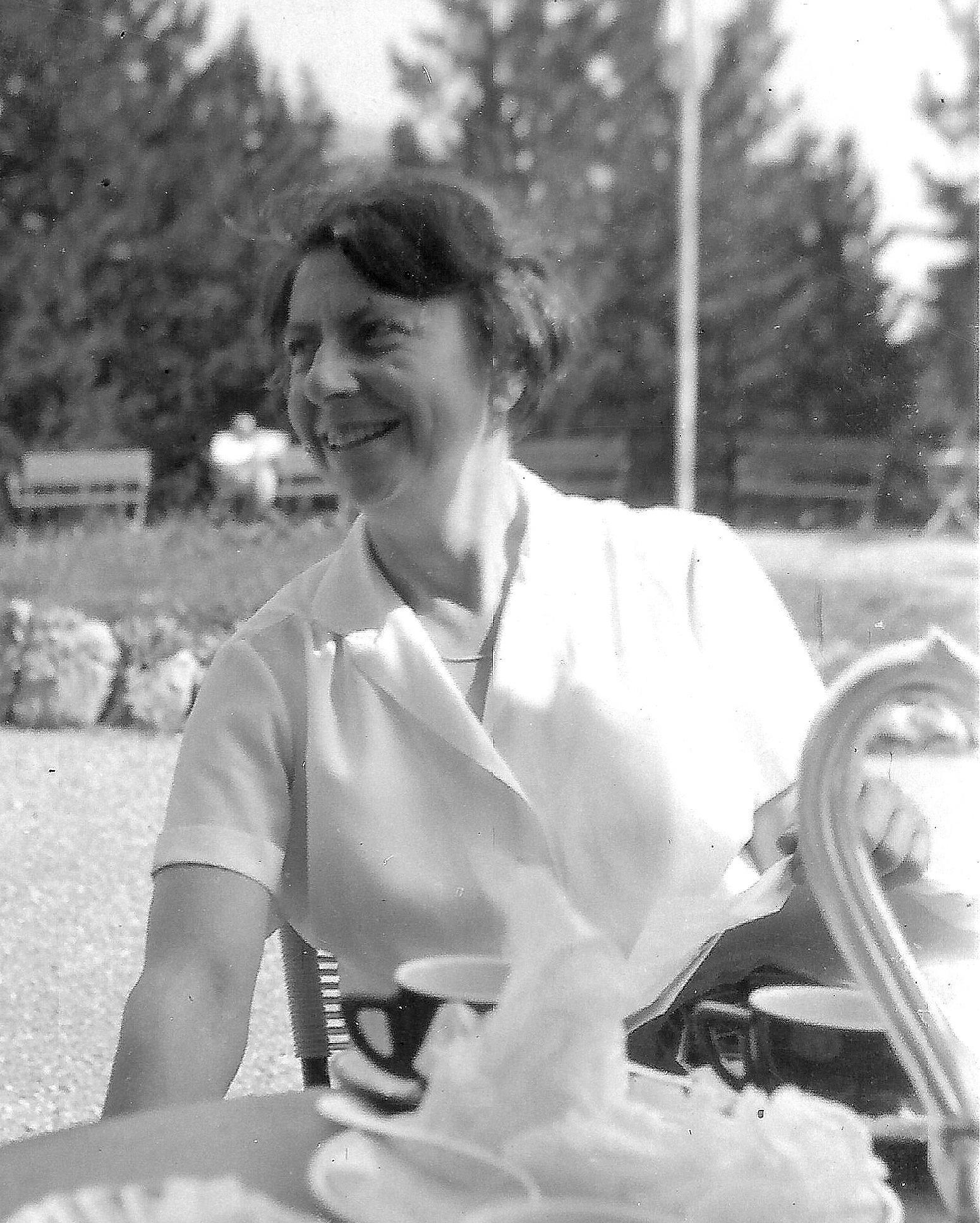 Erna Hamburger, Leysin (Switzerland)